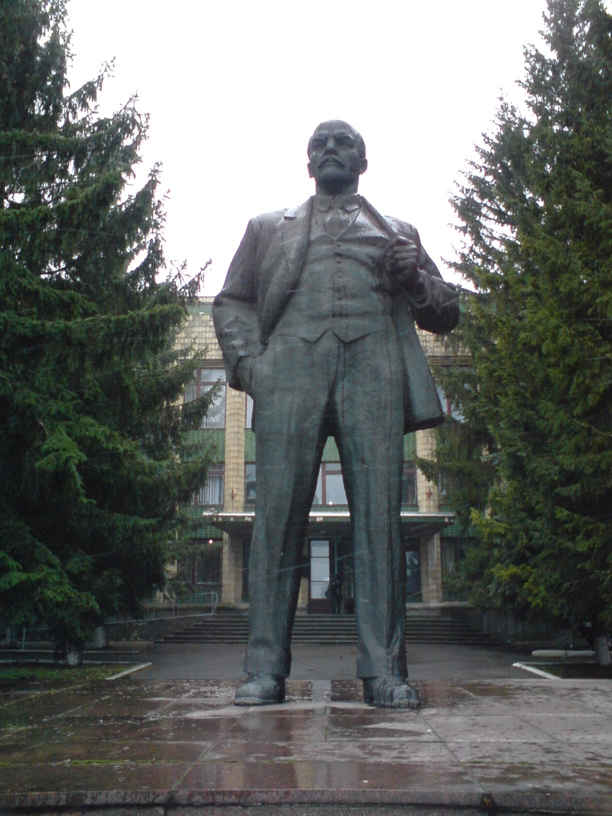 Vradievka, monument to V. I. Lenin